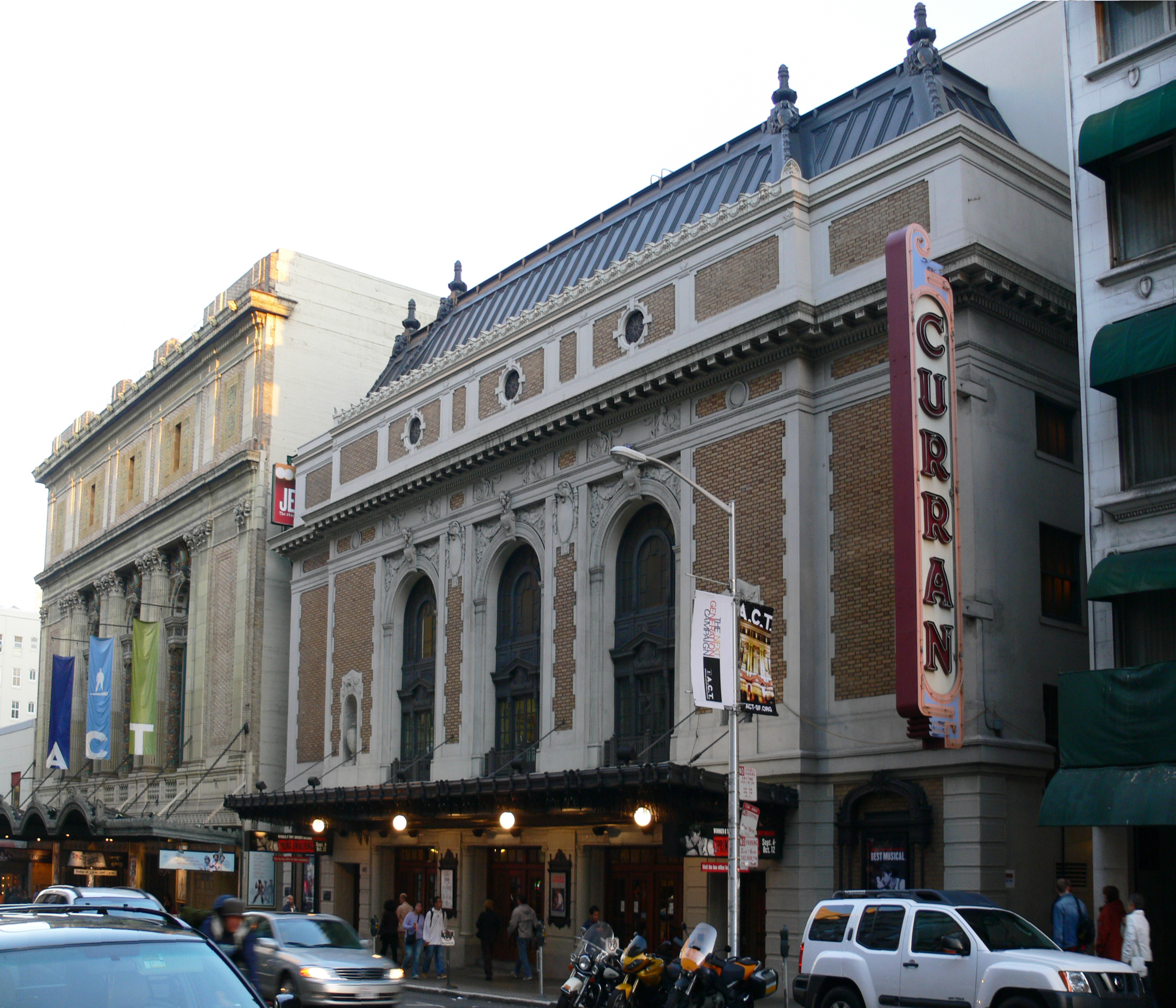 Curran Theatre, San Francisco, California (left: Geary Theatre)